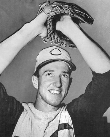 Professional baseball player Claude Osteen